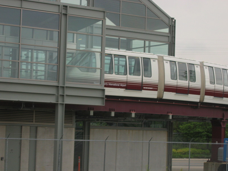 AirTrain Monorail entering Newark Airport Rail Station, August 2004.